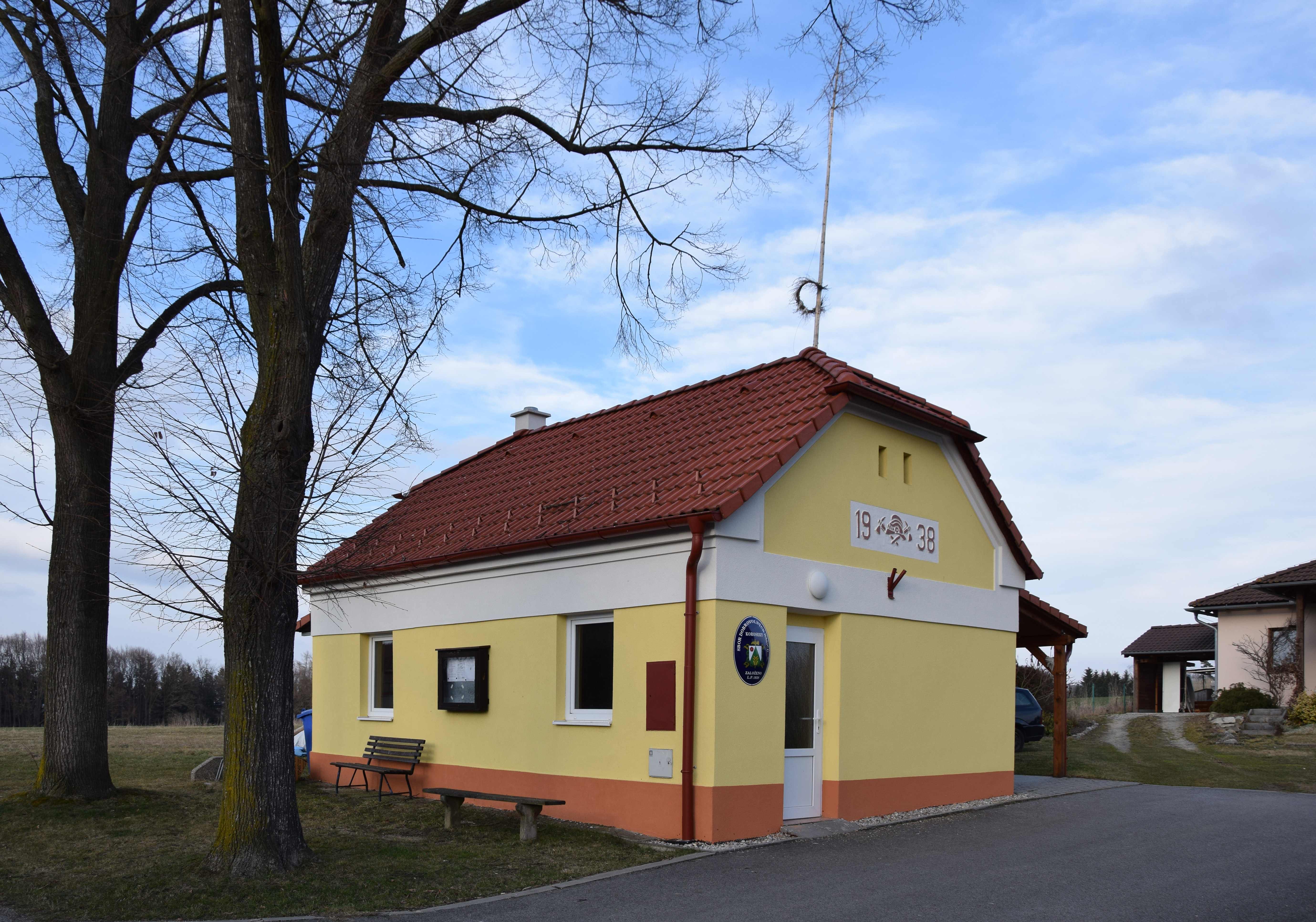 Fire station in Koroseky, České Budějovice district, the Czech Republic.